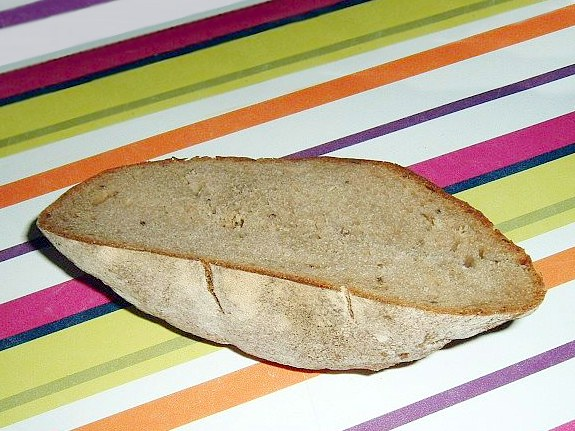 Bread made with caraway seeds. This is the heel of the loaf, known as Der Kanten in German, with numerous regional names in Germany. The heel will become stale sooner than the core of the bread, thus it is important in bread sales to not waste consumer's money with too much of this part of the bread. A stale heel can be revived by soaking in water, which reduces the usefulness it.